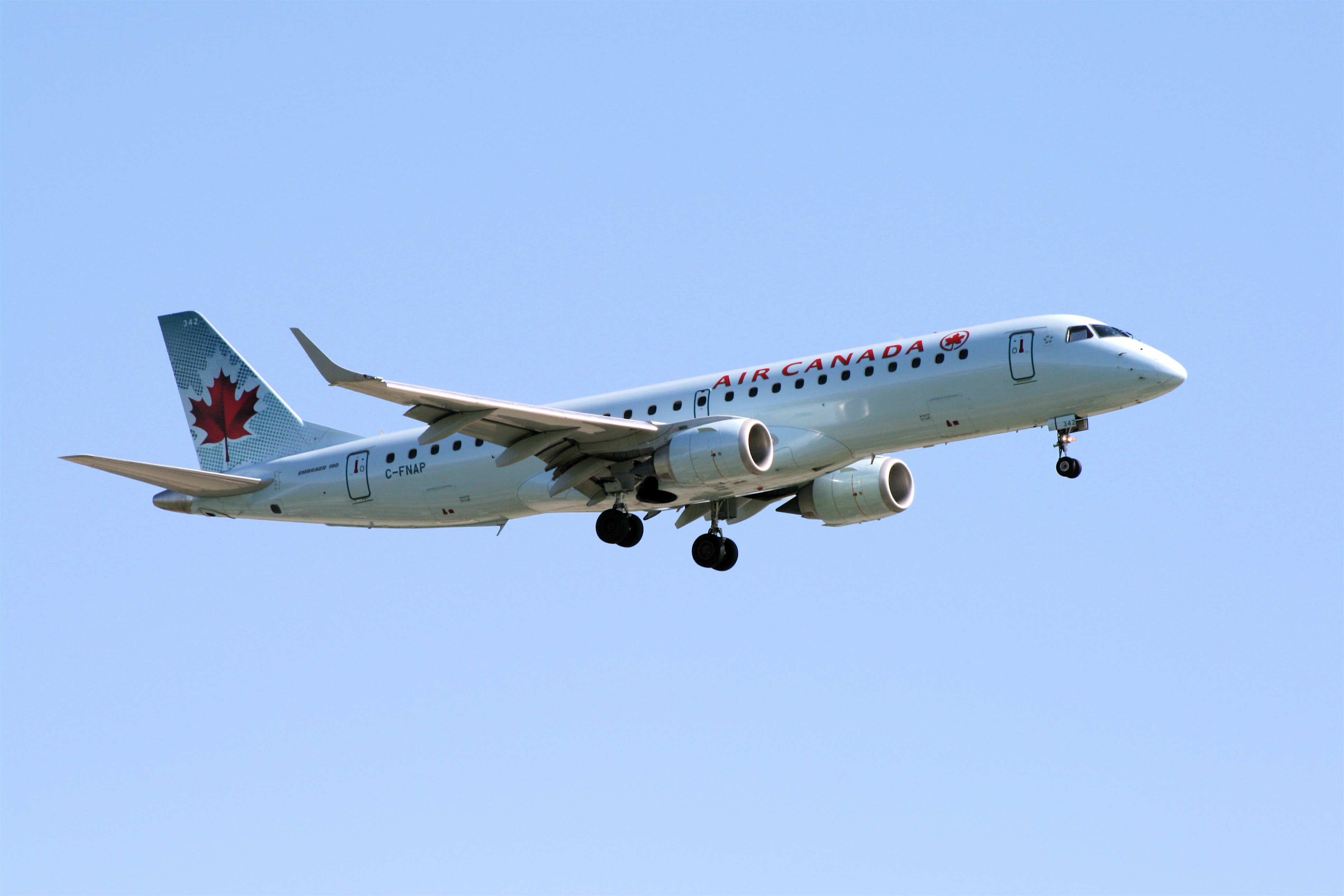 An Air Canada Embraer 190 landing at Vancouver International Airport